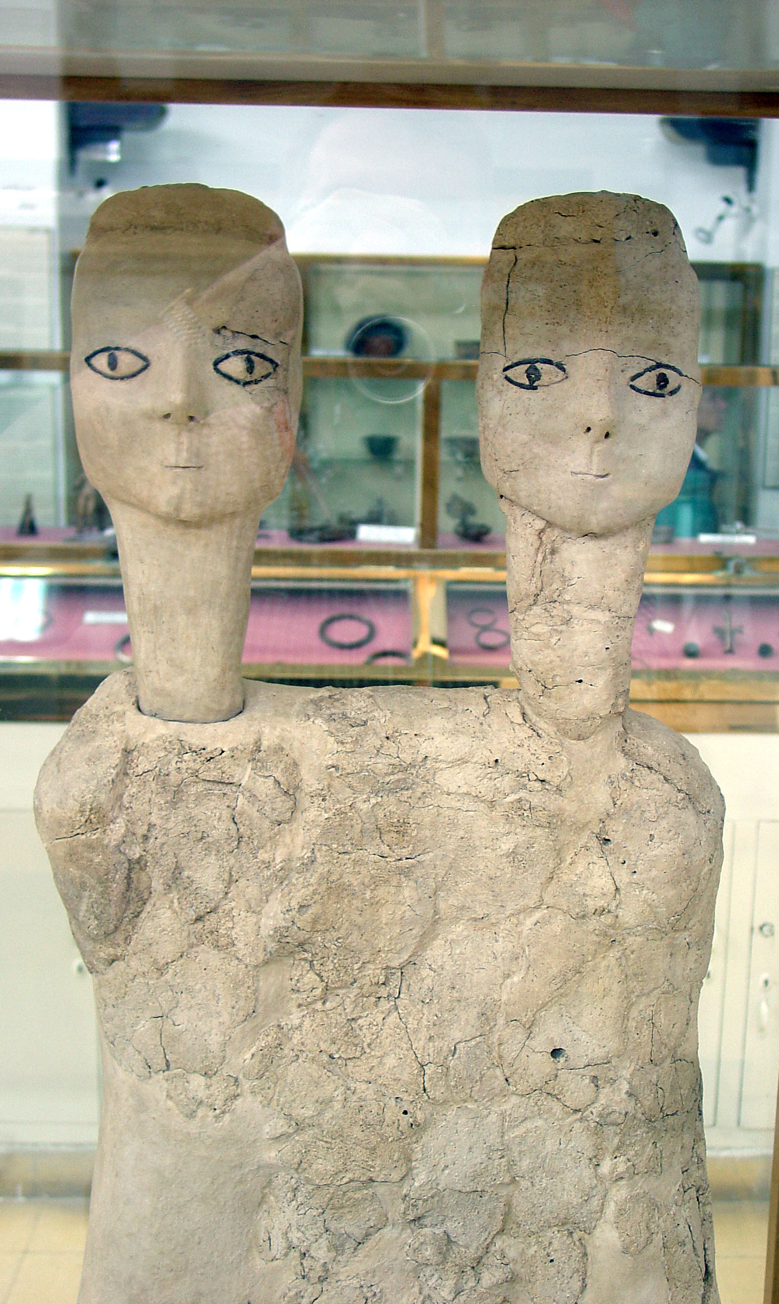 Discovered at 'Ain Ghazal. Later Pre-Pottery Neolithic B, 6700-6500 AD